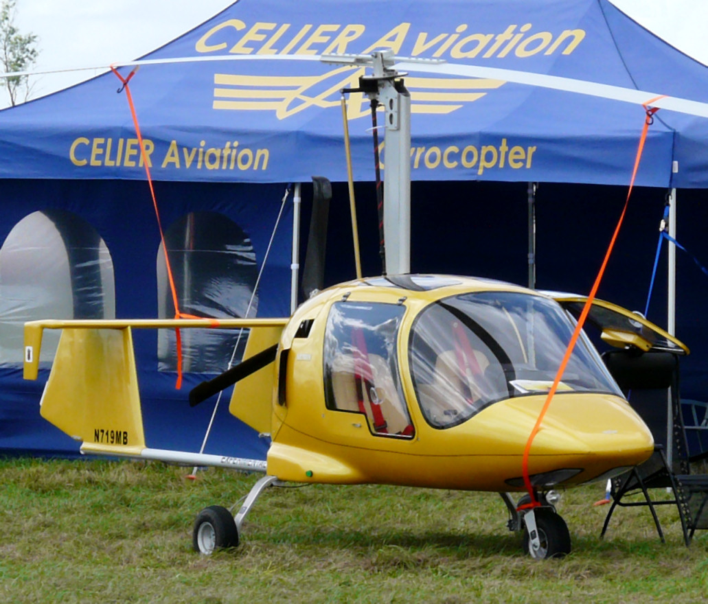 Celier Xenon RS (N719MB) gyroplane, Sun 'N Fun airshow, Lakeland, Florida